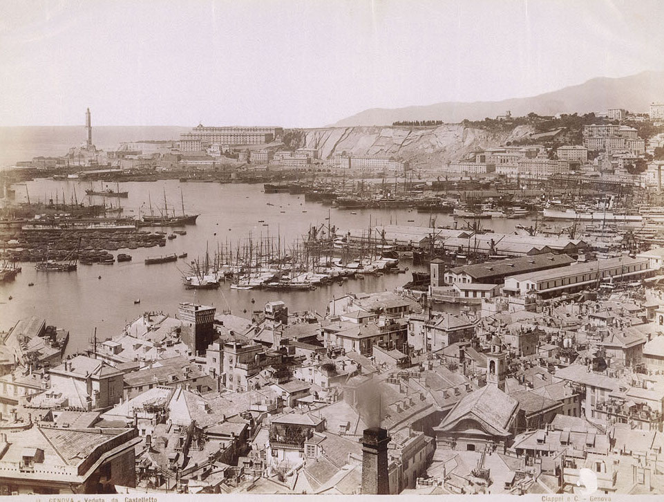 Francesco Ciappei (worked betw. 1857-1887) - Genoa - View from Castelletto.